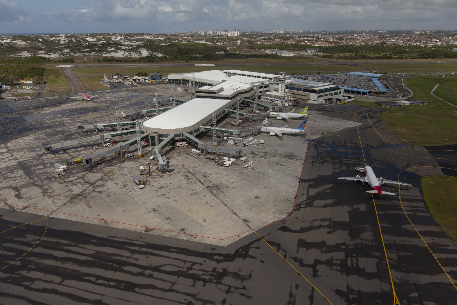 Salvador, BA - Obras de Mobilidade. Aeroporto. (Foto: Divulgação/Portal da Copa)